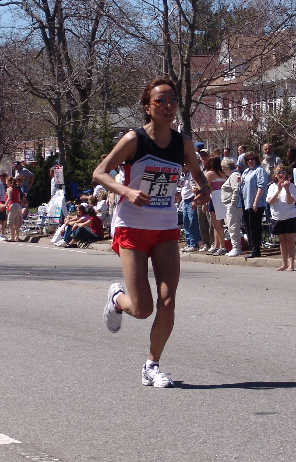 Mina Ogawa attacking Heartbreak Hill. Ogawa finished 9th with a time of 2:37:34.